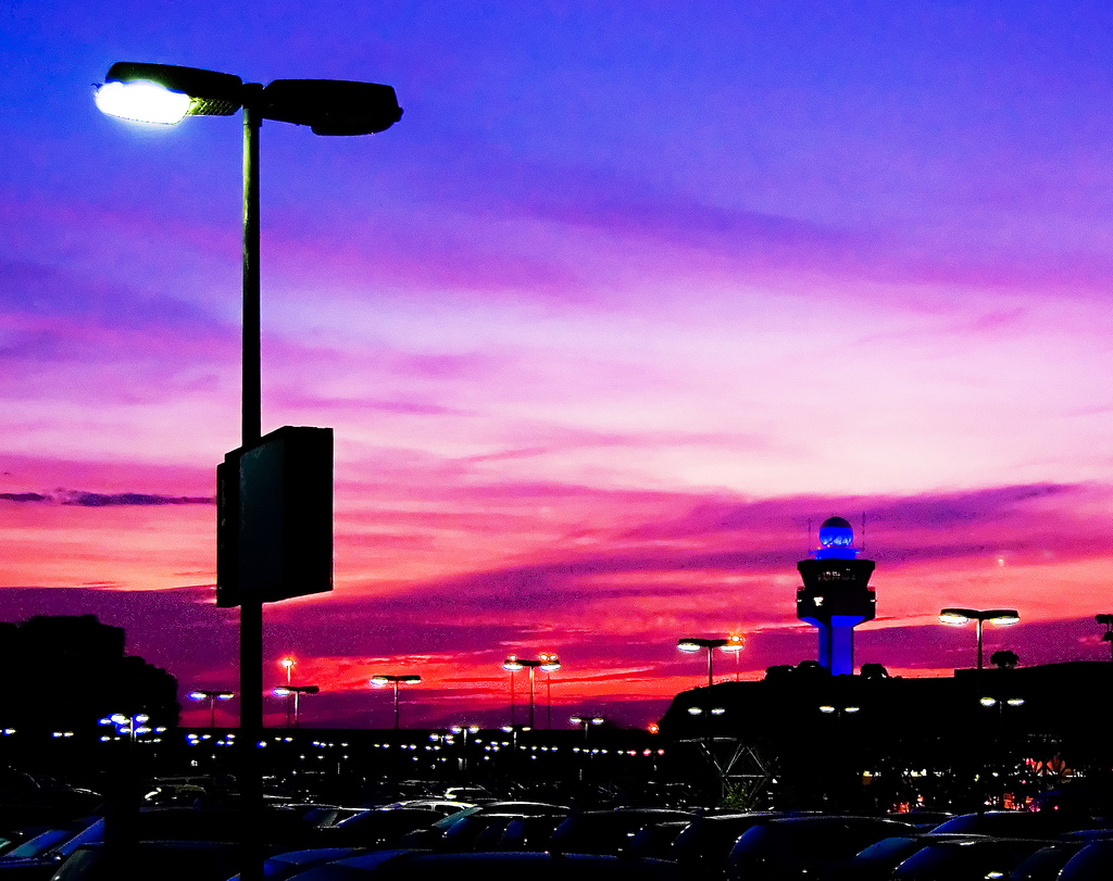 GRU airport, São Paulo, Brazil.